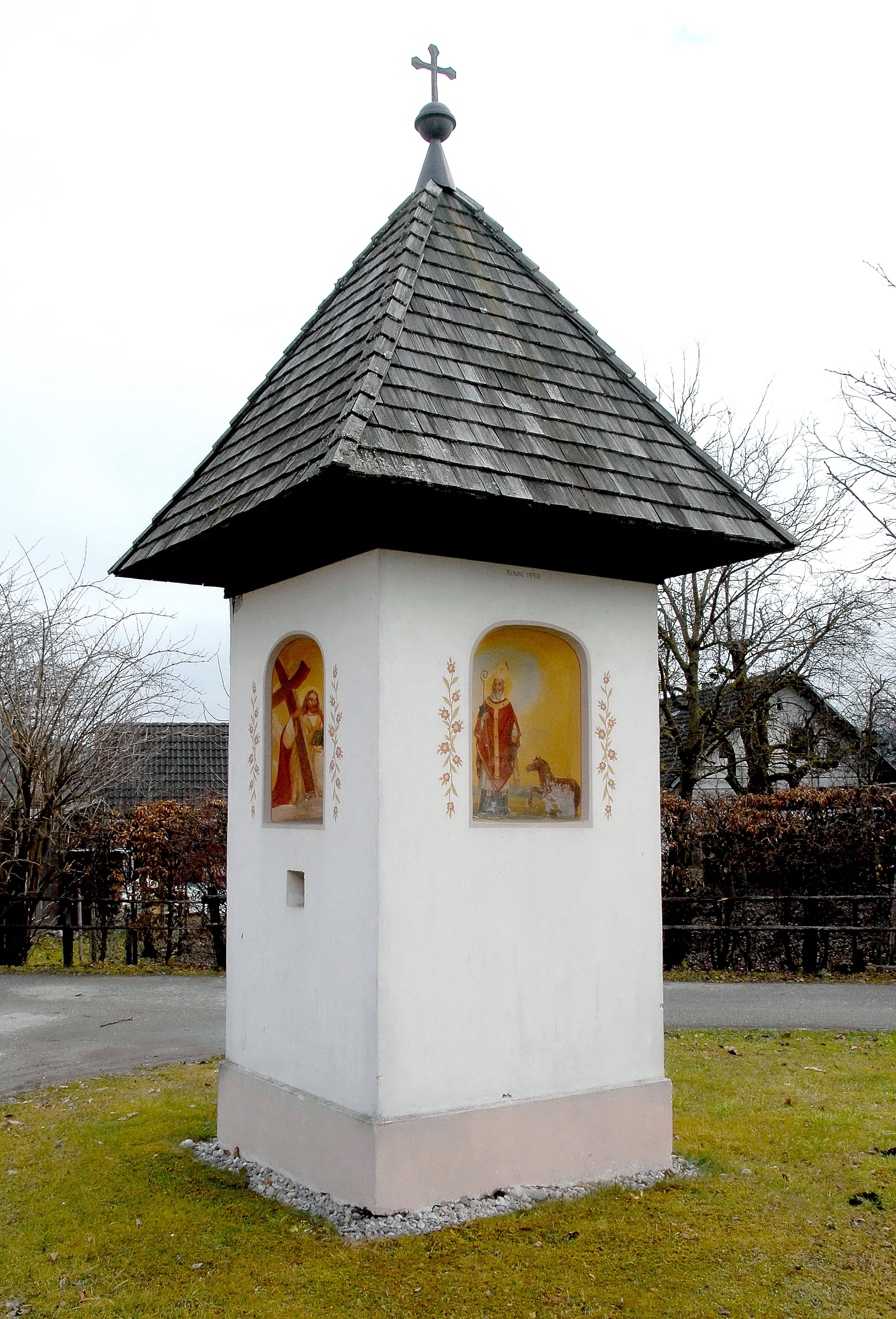 Waysíde shrine named "Turk-Kreuz" at Selkach in the municipality Ludmannsdorf, dirstrict Klagenfurt-Land, Carinthia, Austria